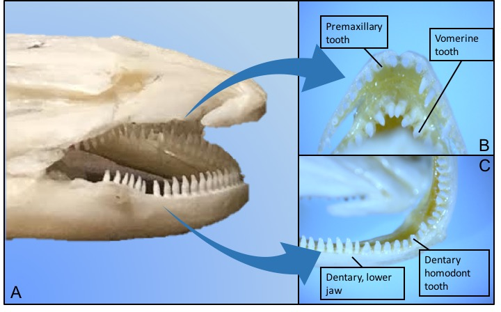 Common mudpuppy tooth structure and placement. Specimen from Pacific Lutheran University Natural History collection